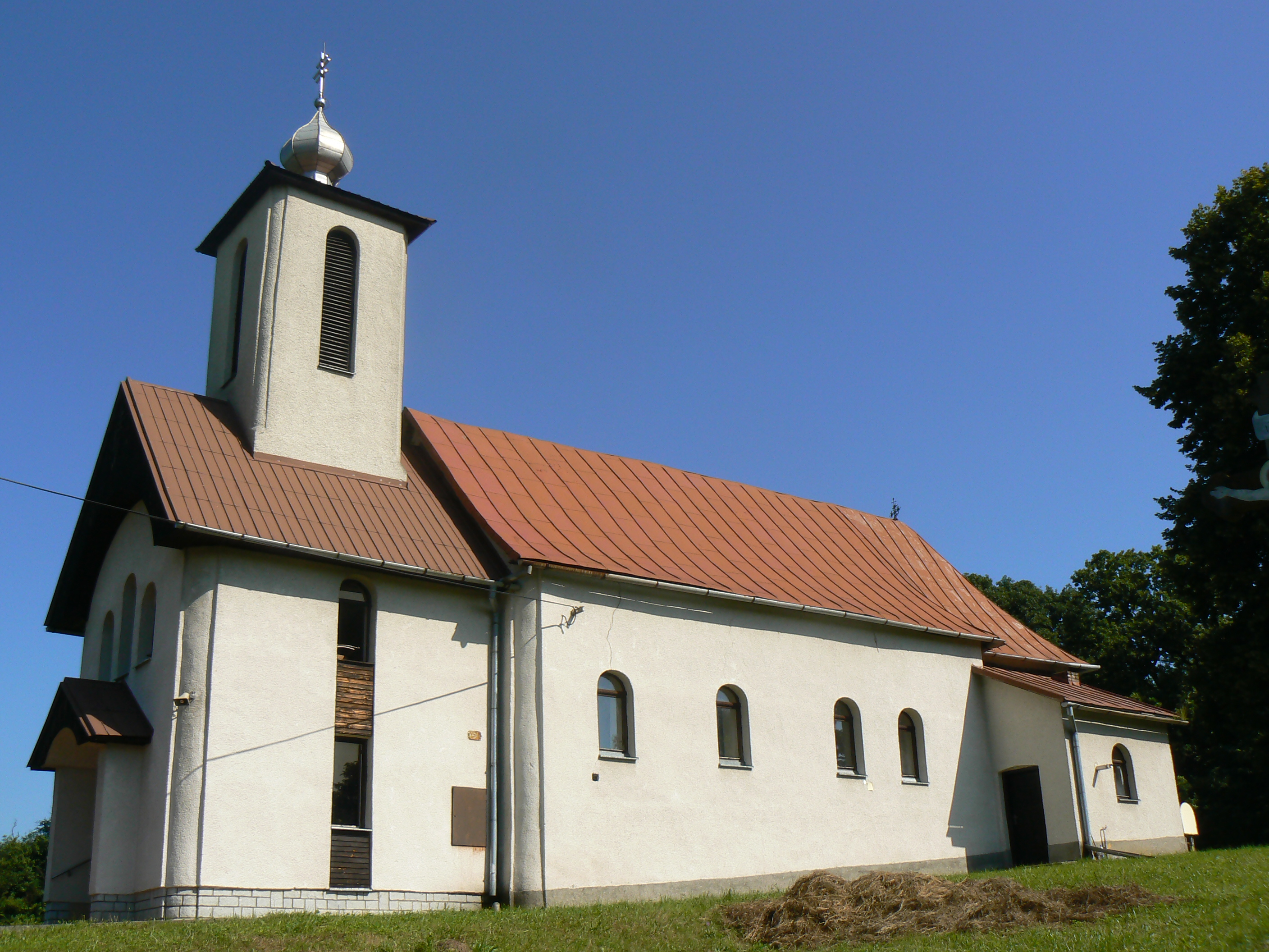 Greek Catholic church, Vyšný Kazimír, Slovakia.